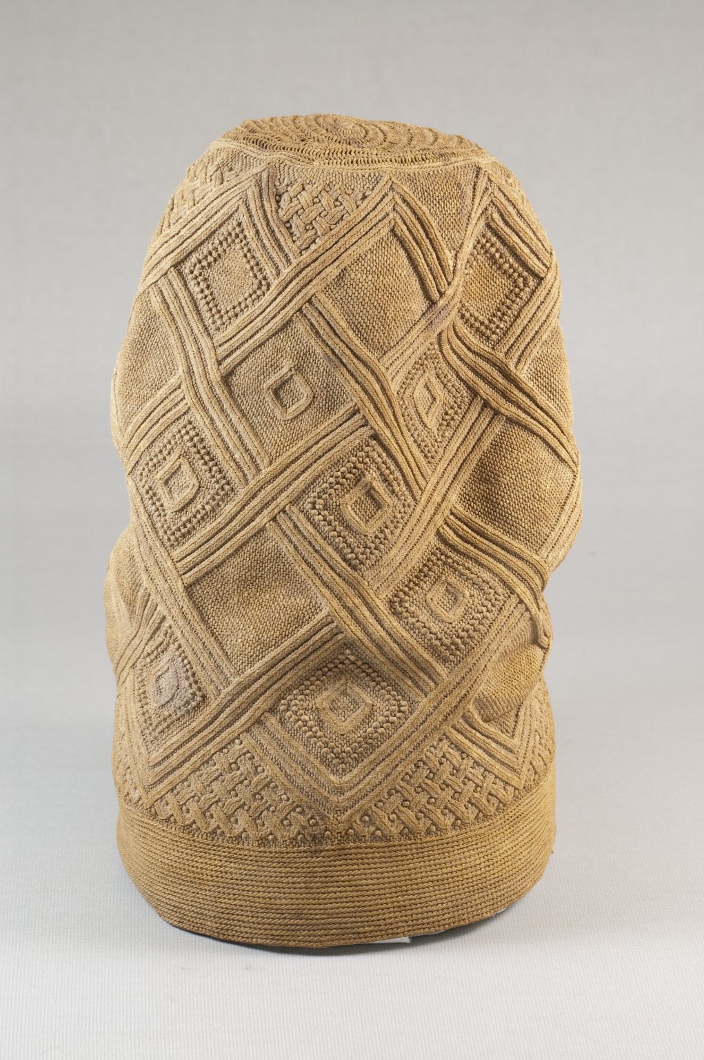 Tall bell shaped body in knotted & plied construction, beautifully executed in fine yarn. Surface decoration of raised diamond shaped ribbing. Some spaces are filled with small raised dots which follow diamond outlines, others with raised over-and-under woven pattern and dots. The bottom opening is an undecorated band. Condition: Very good. Slight staining in some areas.